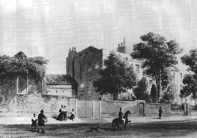 Fleetwood House in Stoke Newington (demolished in 1874) - home to Newington Academy for Girls from 1824